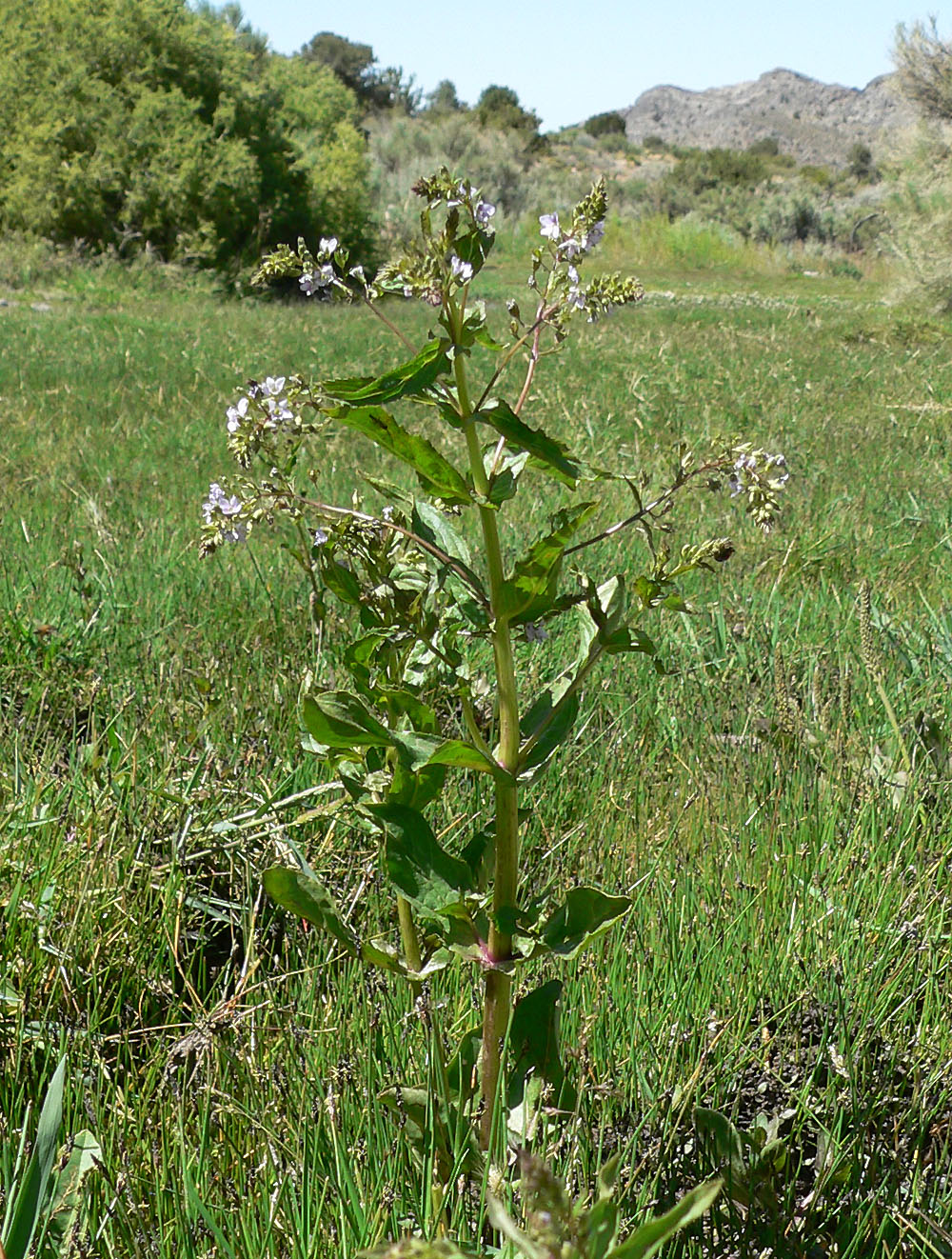 Veronica anagallis-aquatica at Potosi Spring, 4 km west of Potosi Mountain's summit, Spring Mountains, southern Nevada (elev. about 1700 m)